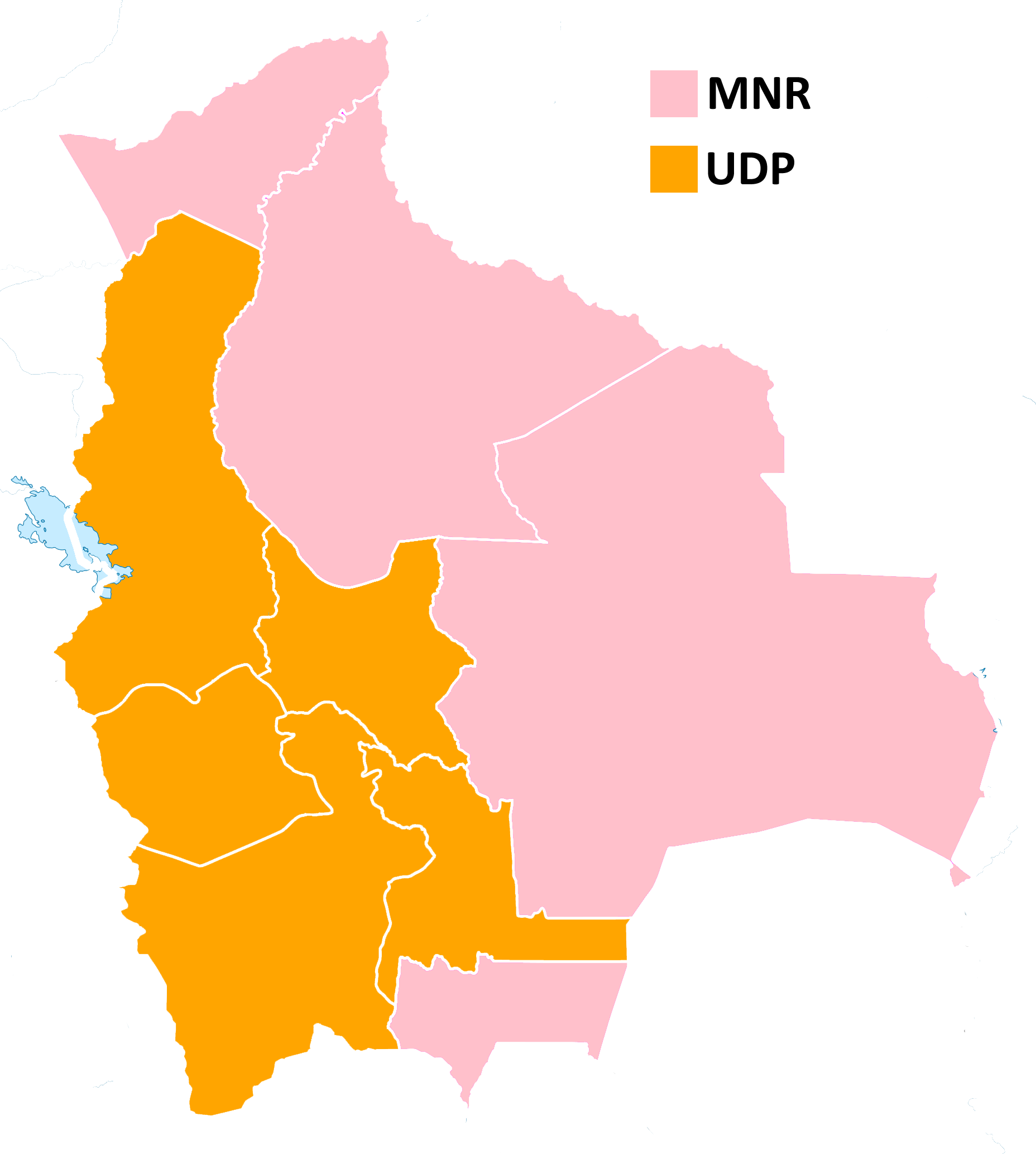 1980 Bolivian elections map